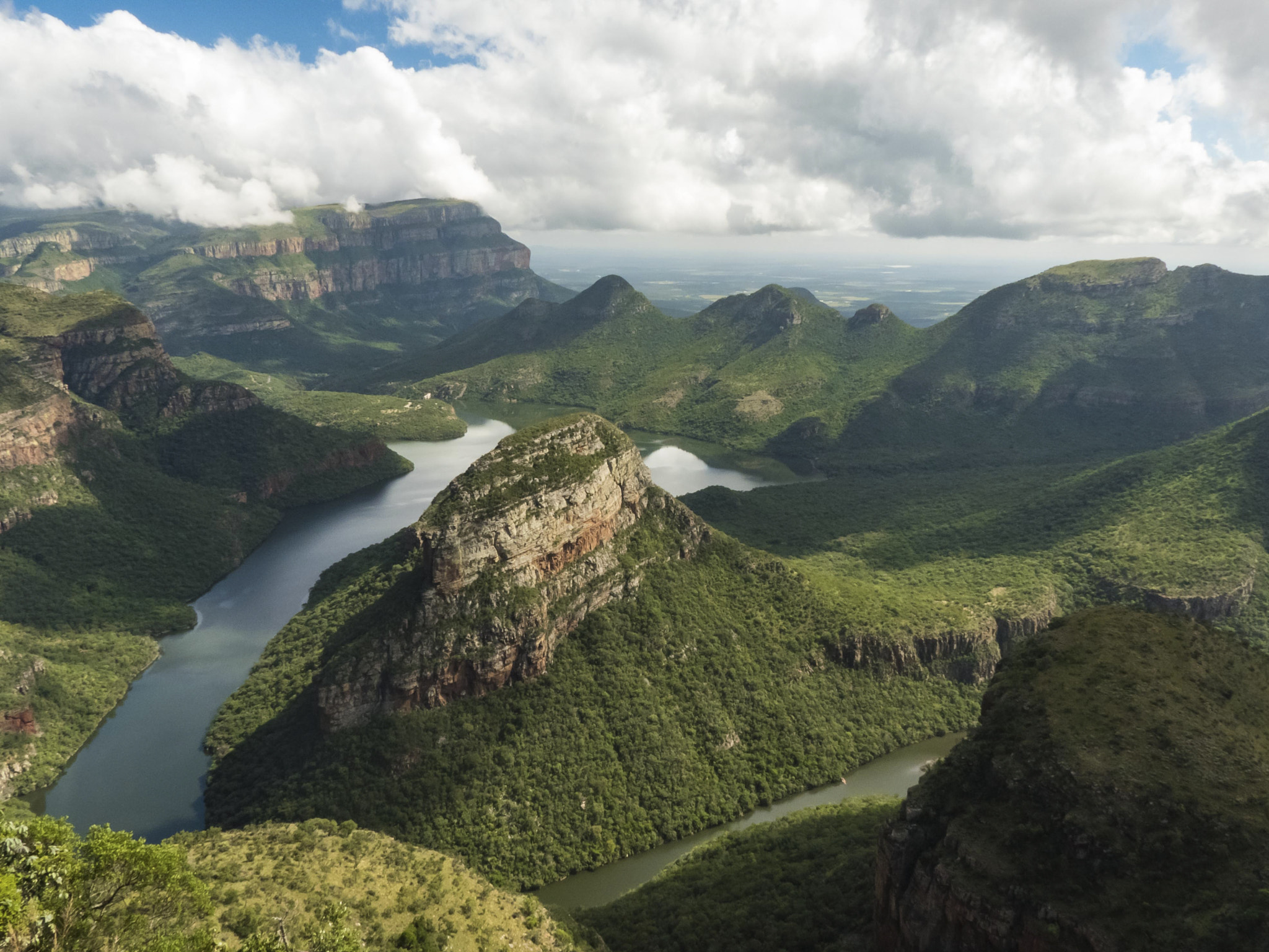 500px provided description: Kruger to Canyons Biosphere Reserve,South Africa. 4.8 million hectares of savannahs, grasslands and forests, home of the big mammals of Africa. One of the last places of the world where rhinos, lions, buffalos, giraffes or leopards can enjoy the wild nature and display the different roles of this huge ecosystem. [#landscape ,#nature ,#river ,#green ,#mountain ,#canyon ,#outdoors ,#hiking ,#wilderness ,#south africa ,#amazing ,#view point ,#krugertocanyons]